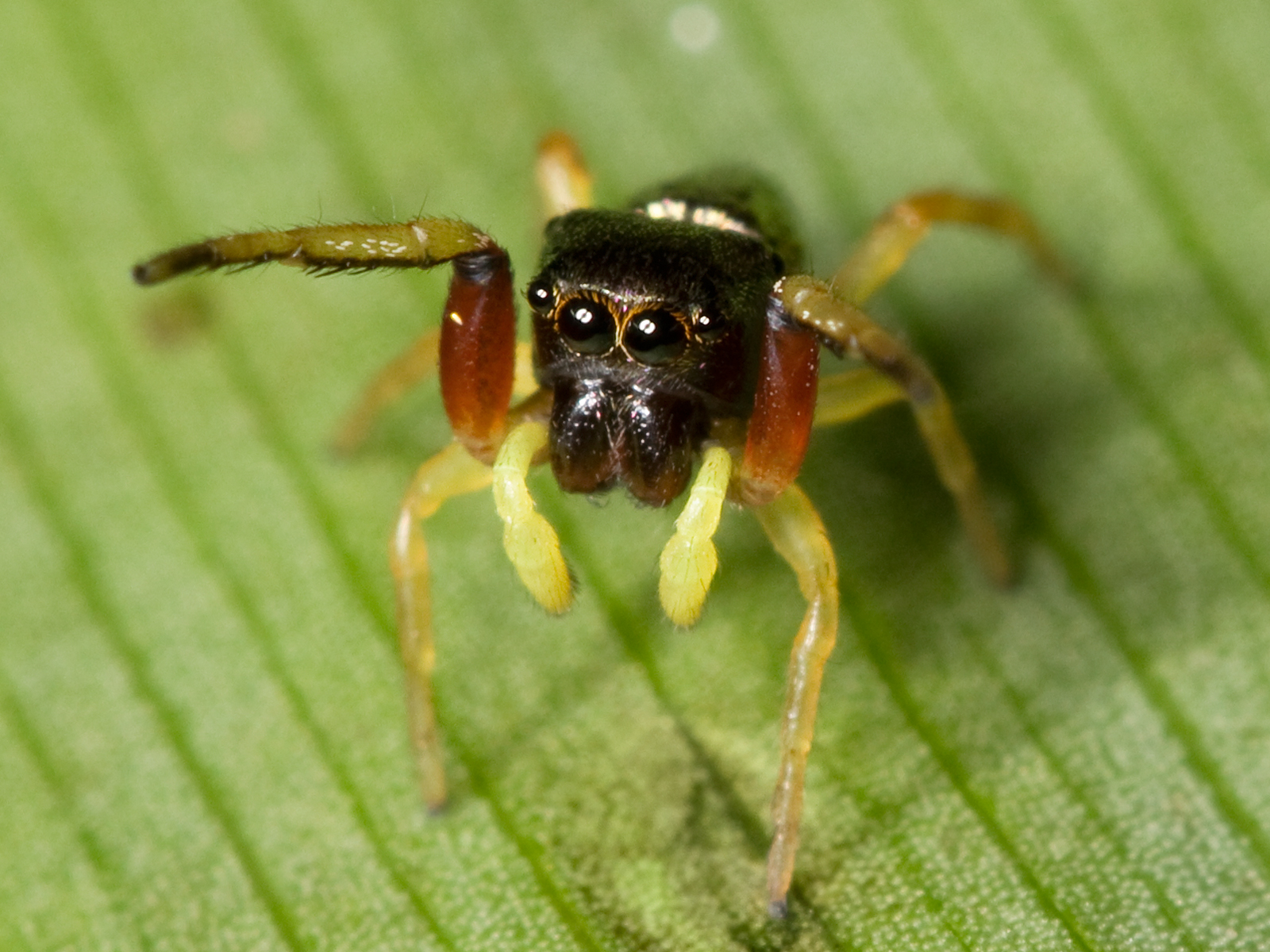 Immature male Zygoaballus rufipes jumping spider found at Reimers Ranch Park, Travis County, Texas.